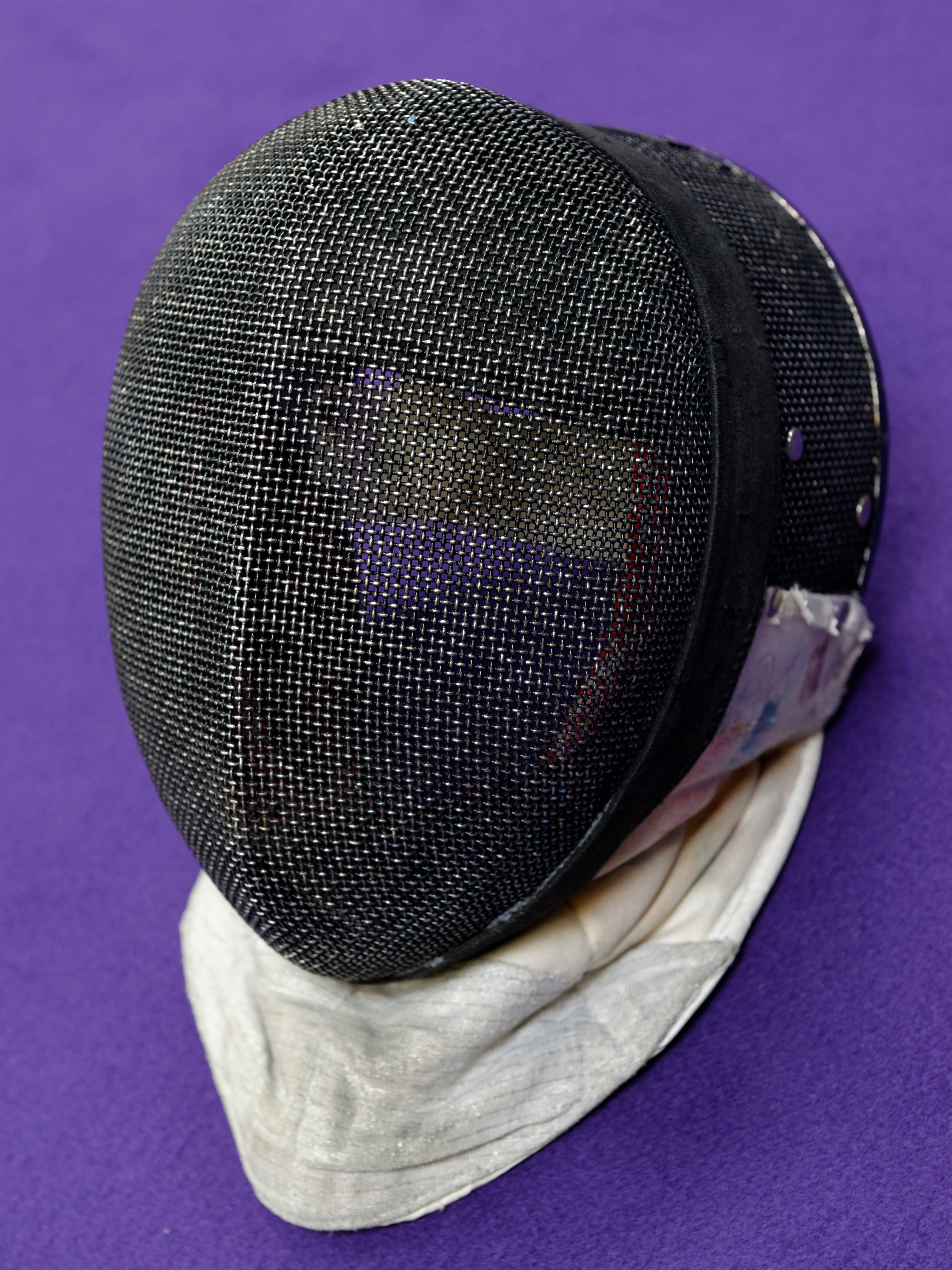 A mask at the French Fencing Championship. Éric Tabarly Sports Complex in Antony, 2013.